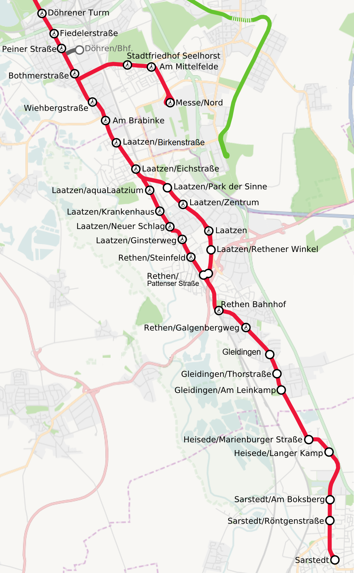 Light rail of Hannover, Germany. B South